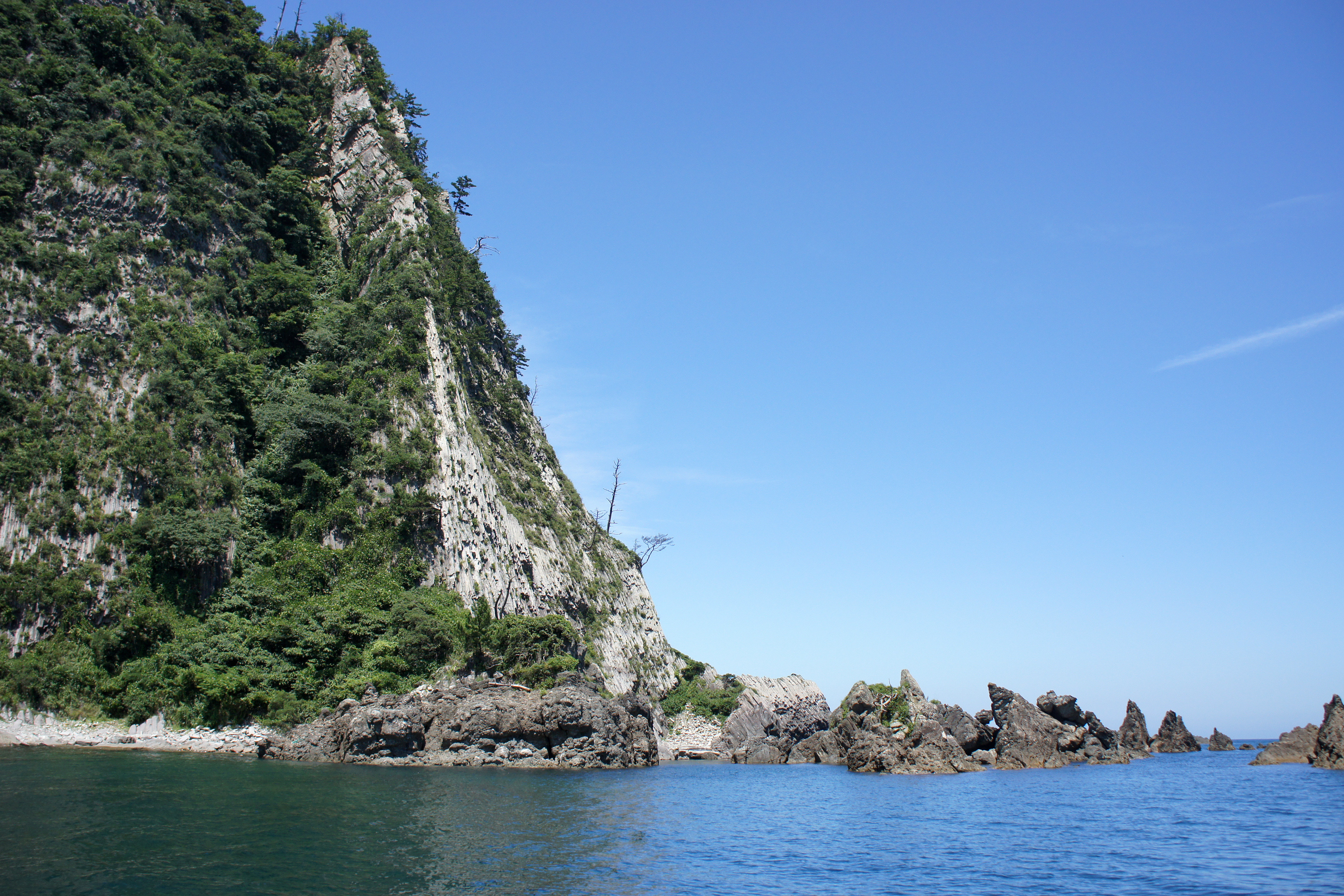 Yoroi-no-sode (sleeve of armor) , a huge 65 meter-high cliff, in Kasumi Coast, Kami, Hyogo prefecture, Japan. It belongs to a Sanin Kaigan National Park.